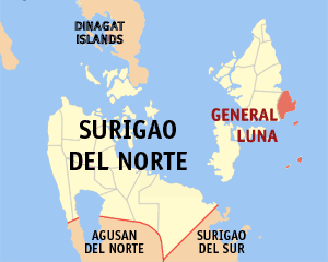 Map of the Surigao del Norte showing the location of General Luna